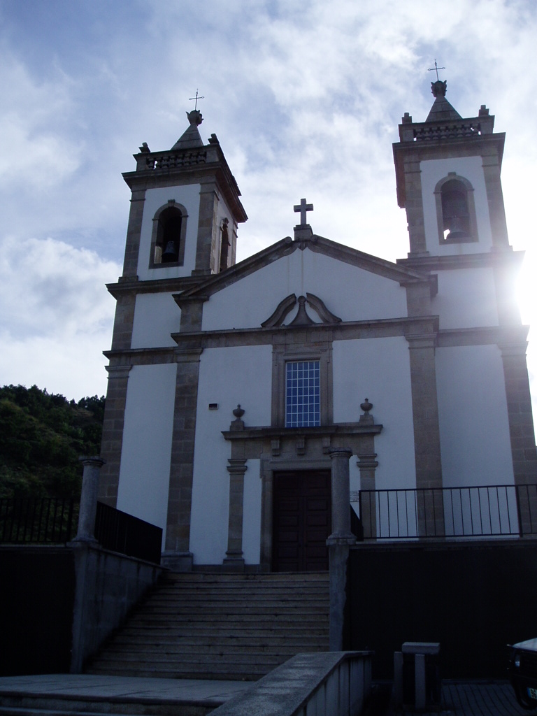 This is the Church of the Holy Lady of Fatima, located at Covilhã, Portugal.